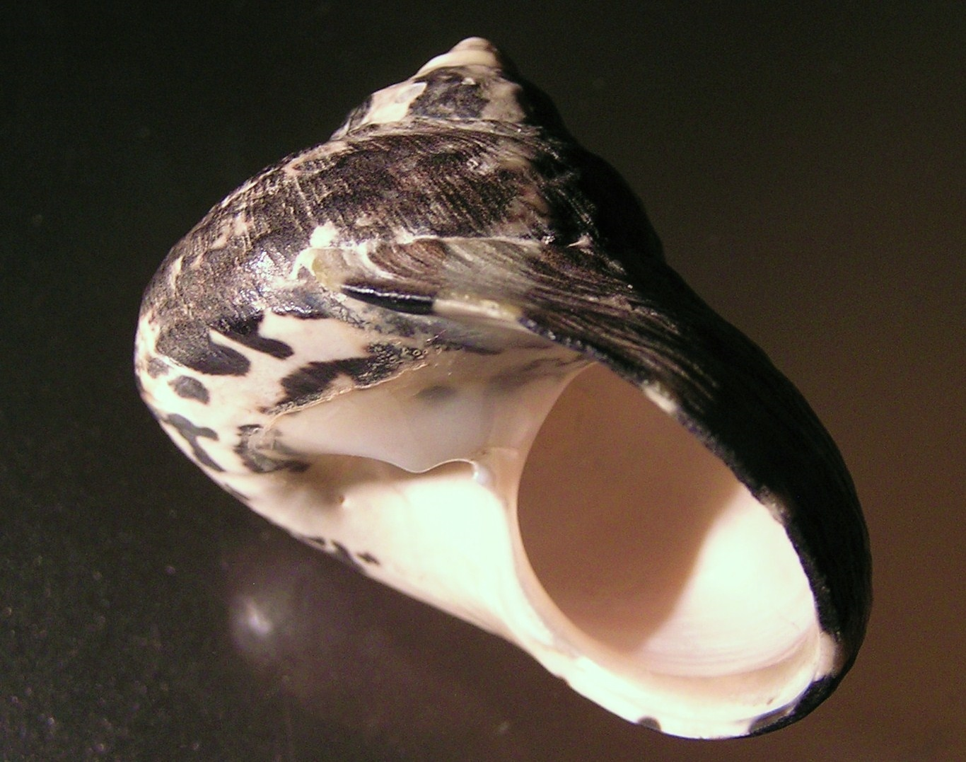 Cittarium pica (Linnaeus, 1758), a top shell from the family Turbinidae; Bahamas